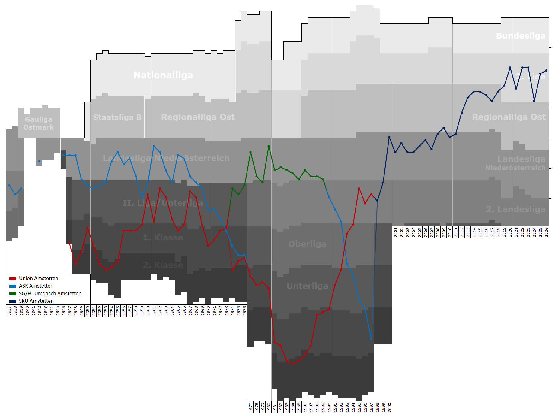 Historical chart of end-season table positions of SKU Amstetten in the Austrian football league system. Data source: RSSSF, , regiowiki.at, noefv.at, wikipedia